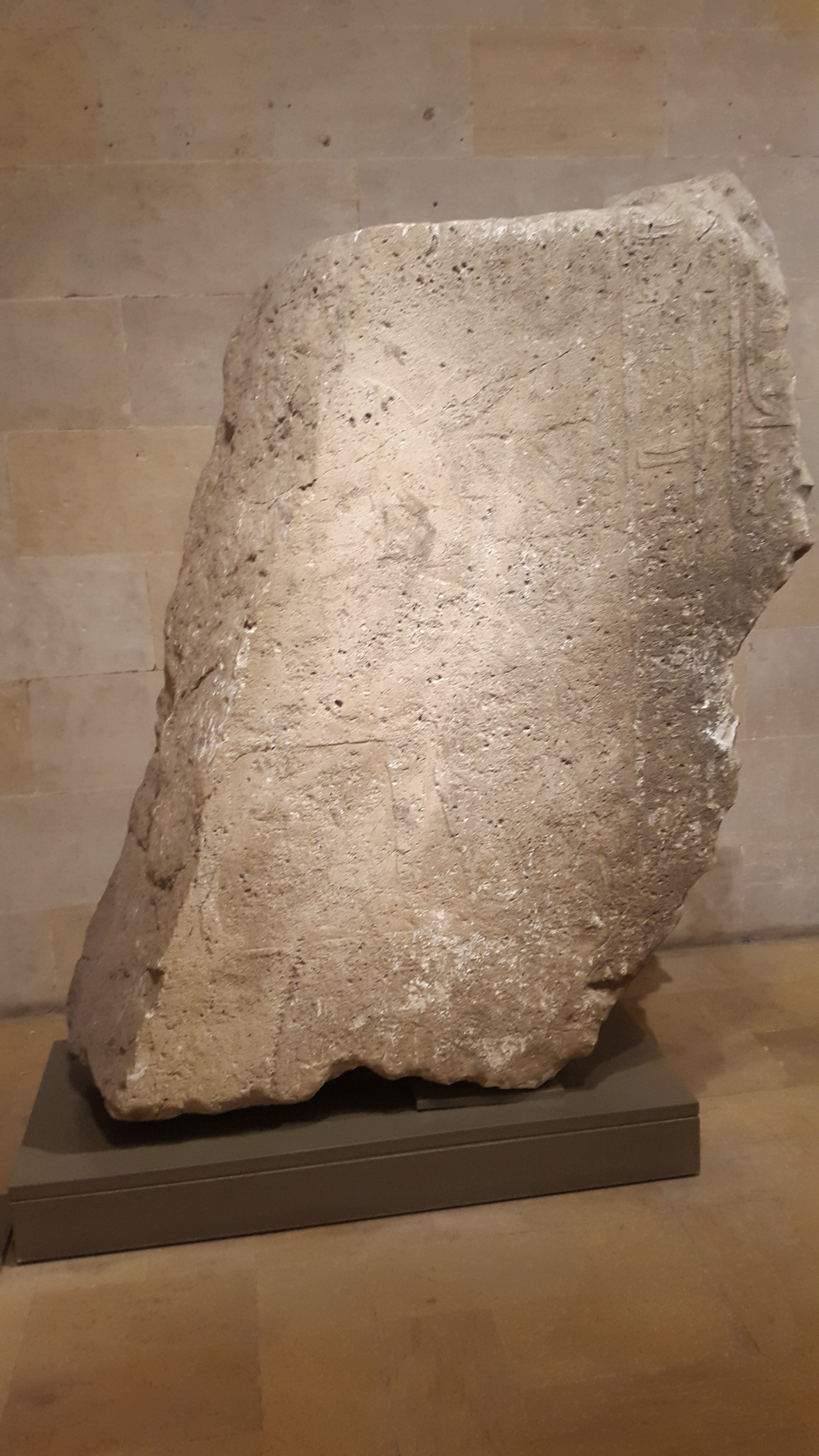 Relief of the pharaoh Nefer-Hotep I with a hieroglyphic inscriptions at Beirut National Museum